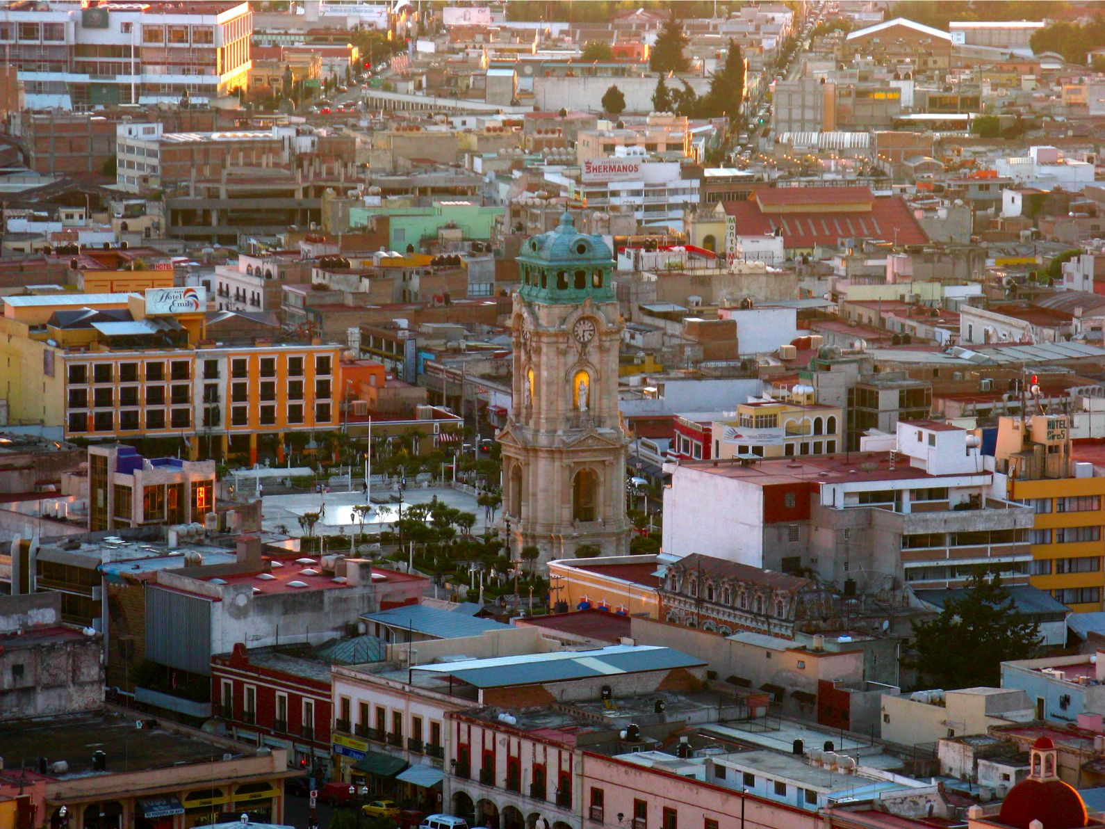 Pachuca de Soto (Estado de Hidalgo, México) and its Clock at sunset.